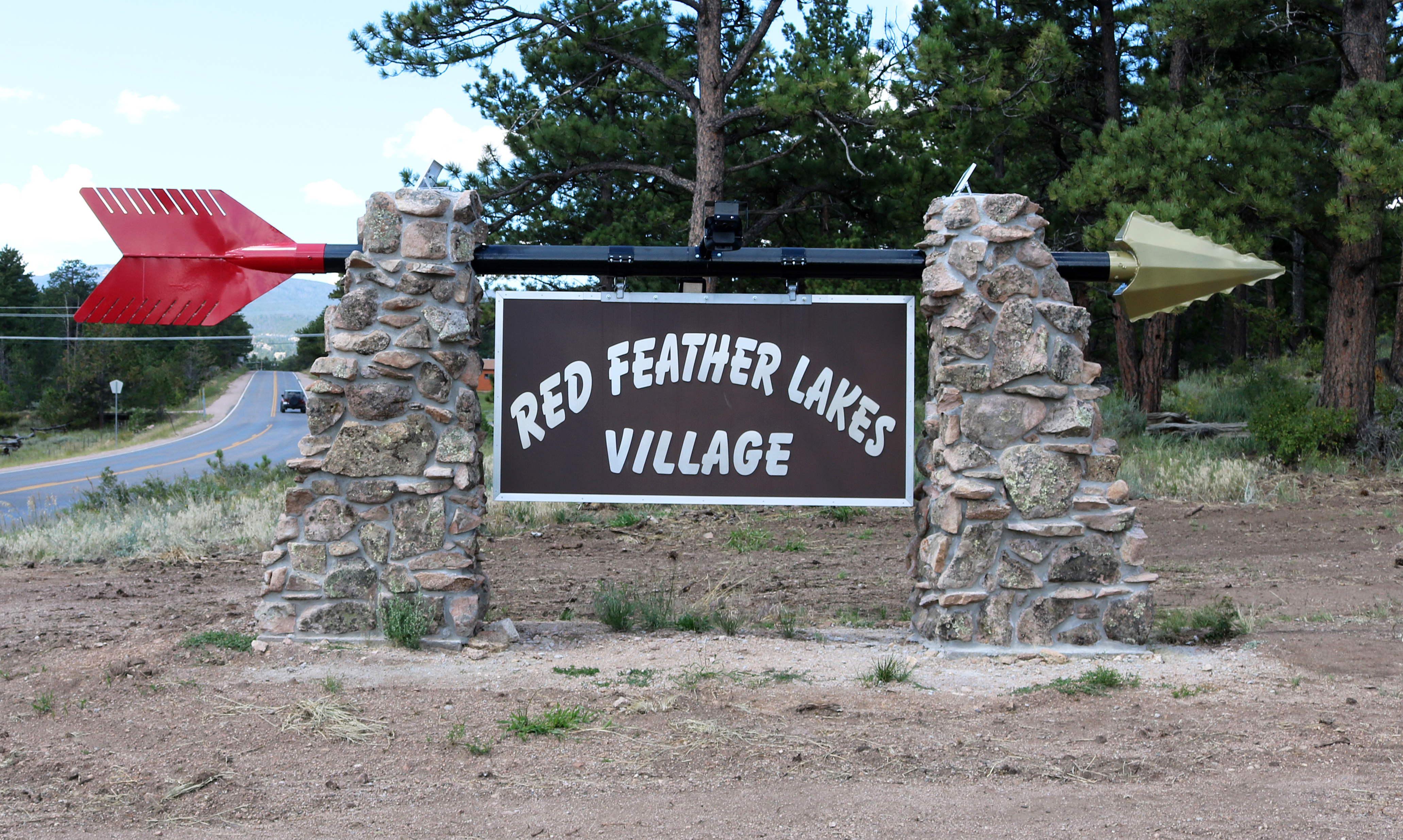 A sign pointing to Red Feather Lakes Village, in Larimer County, Colorado. The sign is located near the intersection of Red Feather Lakes Road (County Road 74E) and County Road 67J.